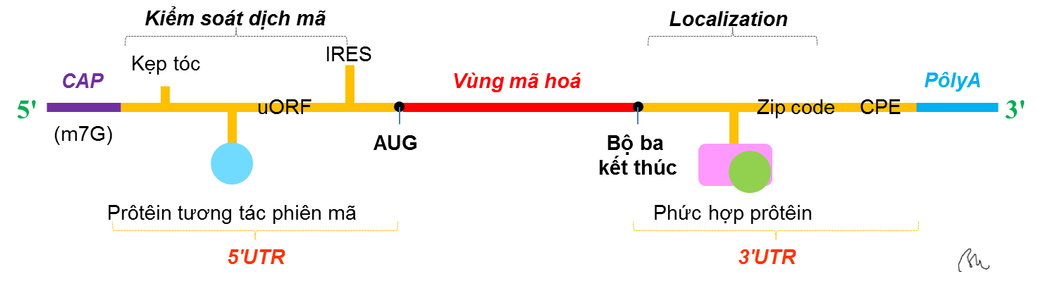 The generic structure of a eukaryotic mRNA, illustrating some post-transcriptional regulatory elements that affect gene expression. Abbreviations (from 5' to 3'): UTR, untranslated region; m7G, 7-methyl-guanosine cap; hairpin, hairpin-like secondary structures; uORF, upstream open reading frame; IRES, internal ribosome entry site; CPE, cytoplasmic polyadenylation element; AAUAAA, polyadenylation signal.